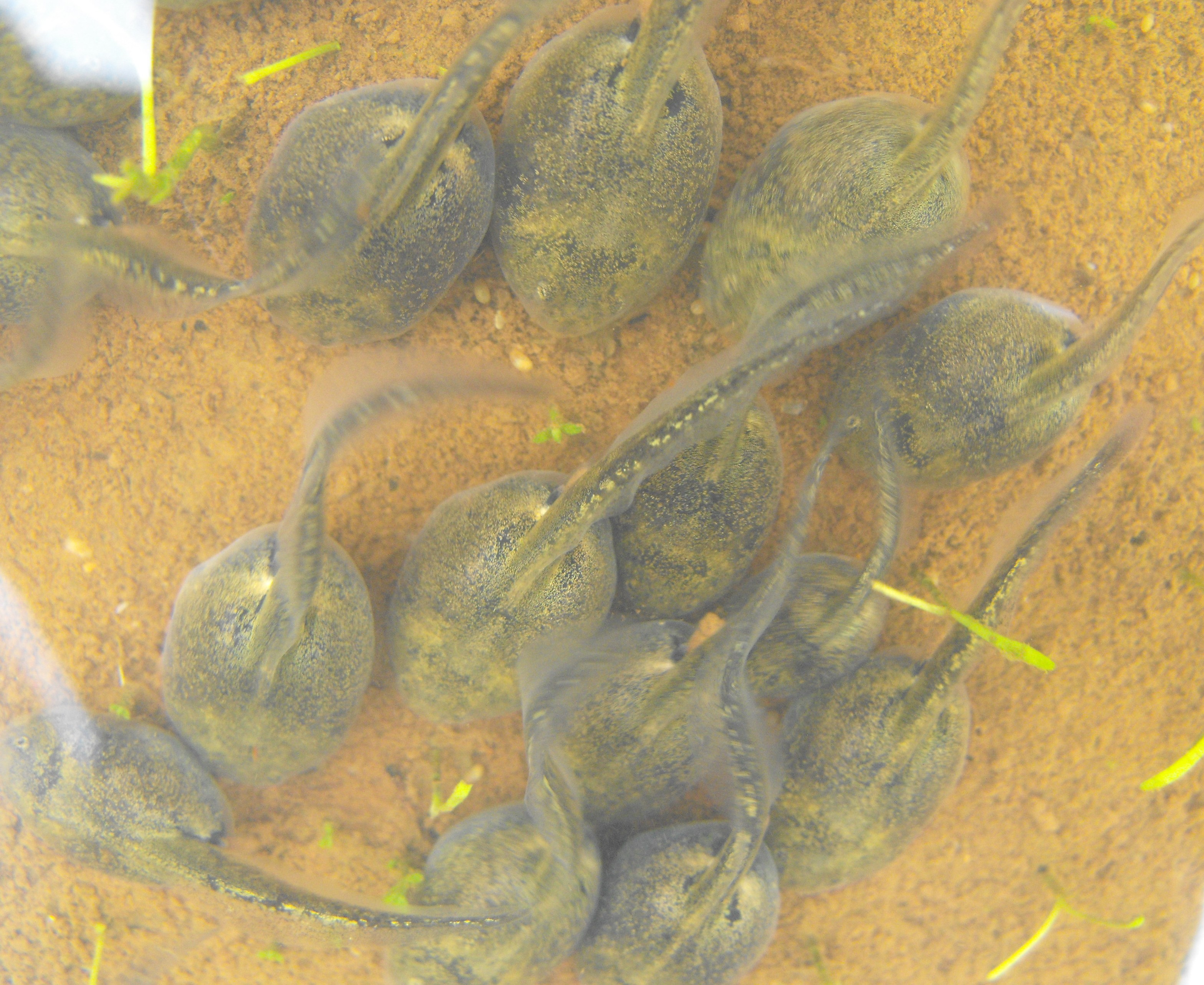 Tadpoles of Spea hammondii in a vernal pool on Carmel Mountain in San Diego, California, USA.